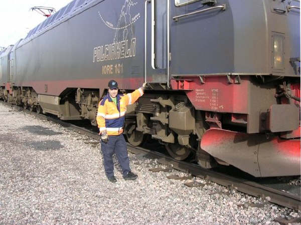 IORE Foto: Vinterfrid